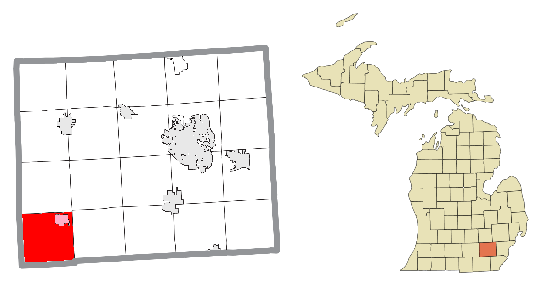 Manchester Township, MI